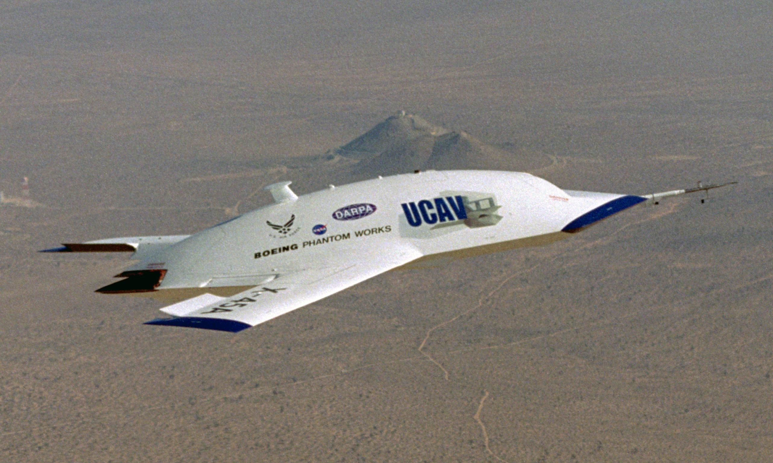 The first X-45A Unmanned Combat Air Vehicle (UCAV) technology demonstrator completed its sixth flight on Dec. 19, 2002, raising its landing gear in flight for the first time. The X-45A flew for 40 minutes and reached an airspeed of 195 knots and an altitude of 7,500 feet. Dryden is supporting the DARPA/Boeing team in the design, development, integration, and demonstration of the critical technologies, processes, and system attributes leading to an operational UCAV system. Dryden support of the X-45A demonstrator system includes analysis, component development, simulations, ground and flight tests.